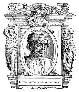 Illustratio from "Le Vite" by Giorgio Vasari, edition of 1568. For the artist portrayed see filename